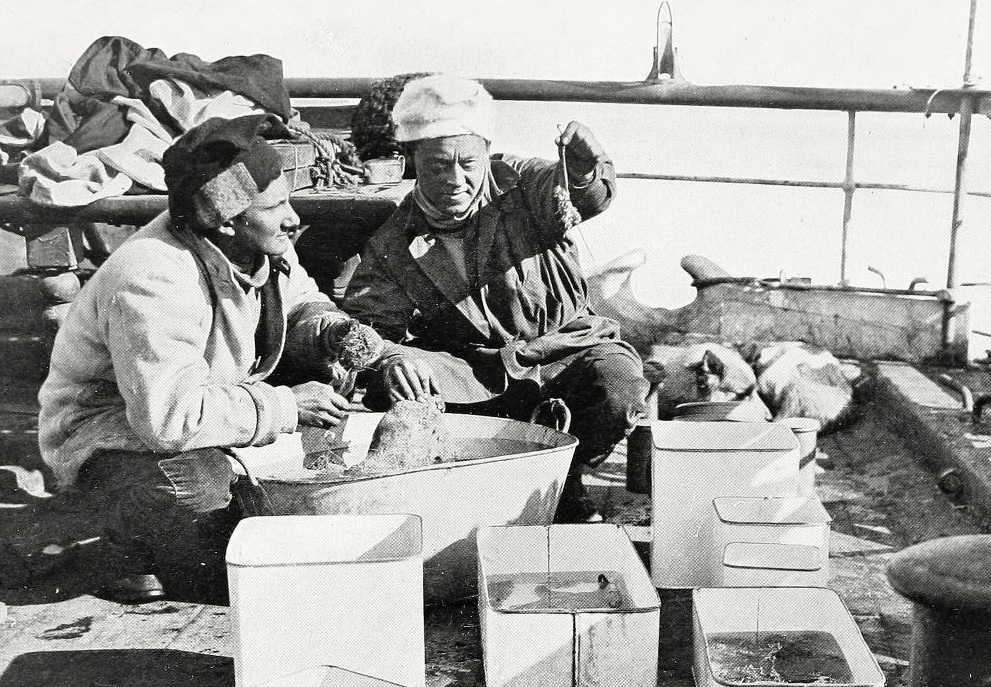 D. G. Lillie and George Murray Levick sorting specimens from a trawl catch